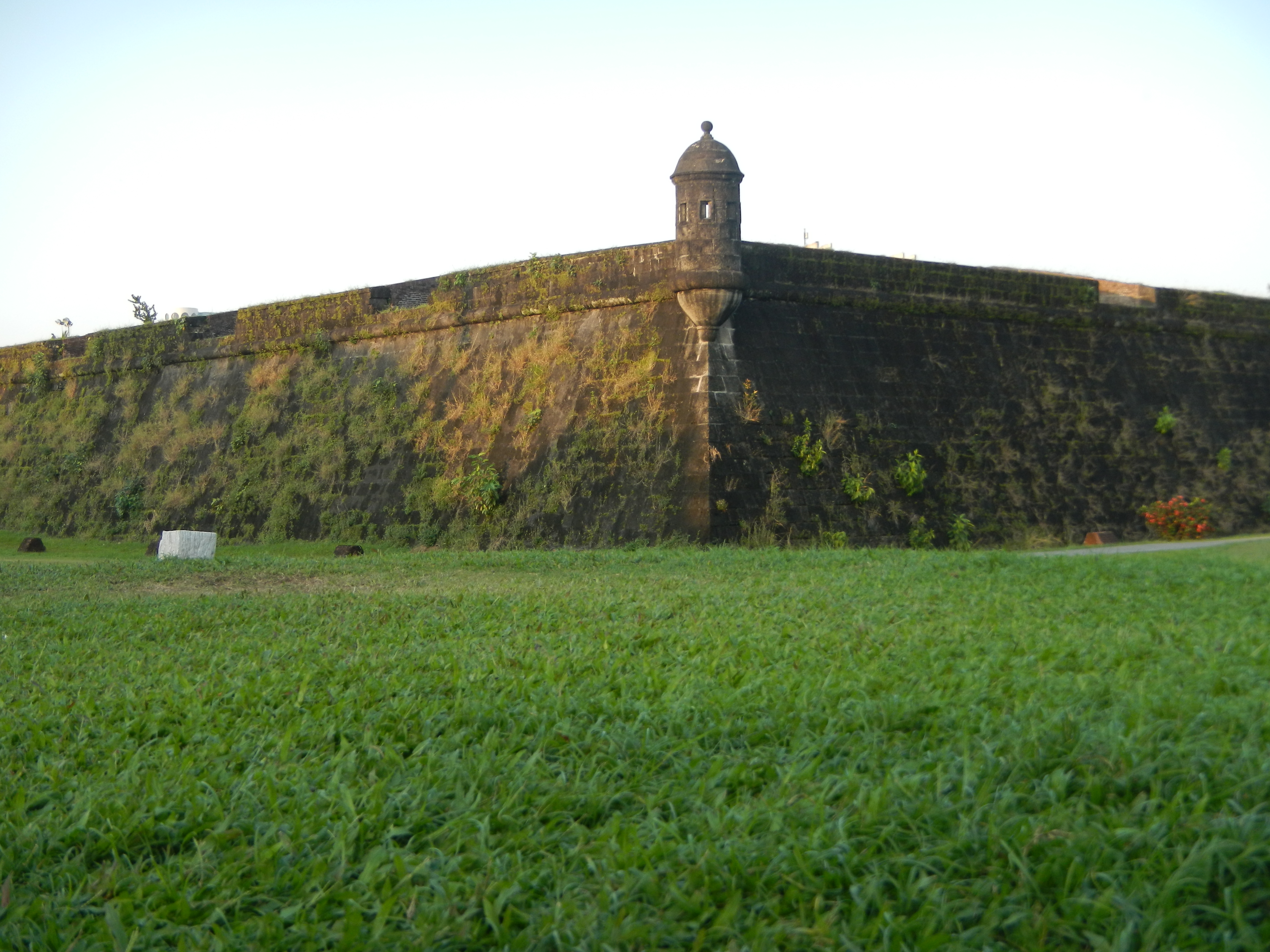 Upload Wizard Panorama photos of -- (general description of landmarks, town, church) - - List of public art in Metro Manila[1] - a) Monument of Jaime Sin [2] b) Andrés de Urdaneta, [3] Miguel López de Legazpi [4] Monument at Intramuros [5] and b) monument of c) José Martí in Manila, Philippines. Put up as part of the 150th anniversary of his birth.- José Martí[6] beside is the d) Club Intramuros Intramuros, Manila - Tourism in Manila[7] - List of golf courses in the Philippines[8] [9] Intramuros Golf Club Manila golf course, park Coordinates: 14°35'18"N 120°58'30"E.